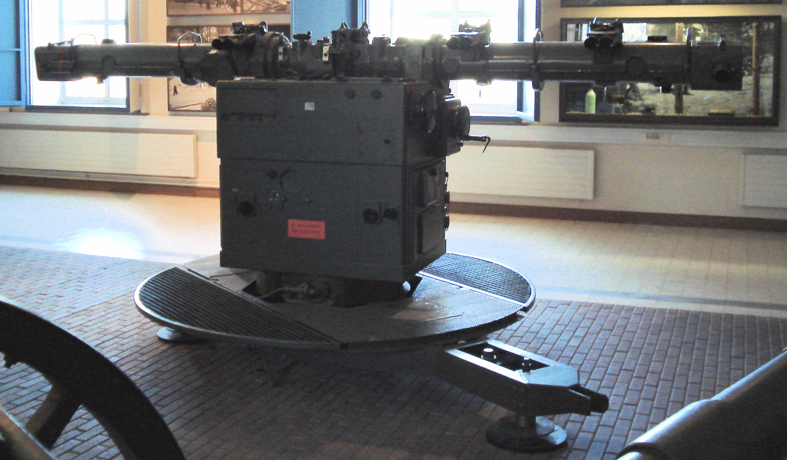 Kommandogerät 40, german rangefinder and mechanical analog computer for directing anti-aircraft guns.